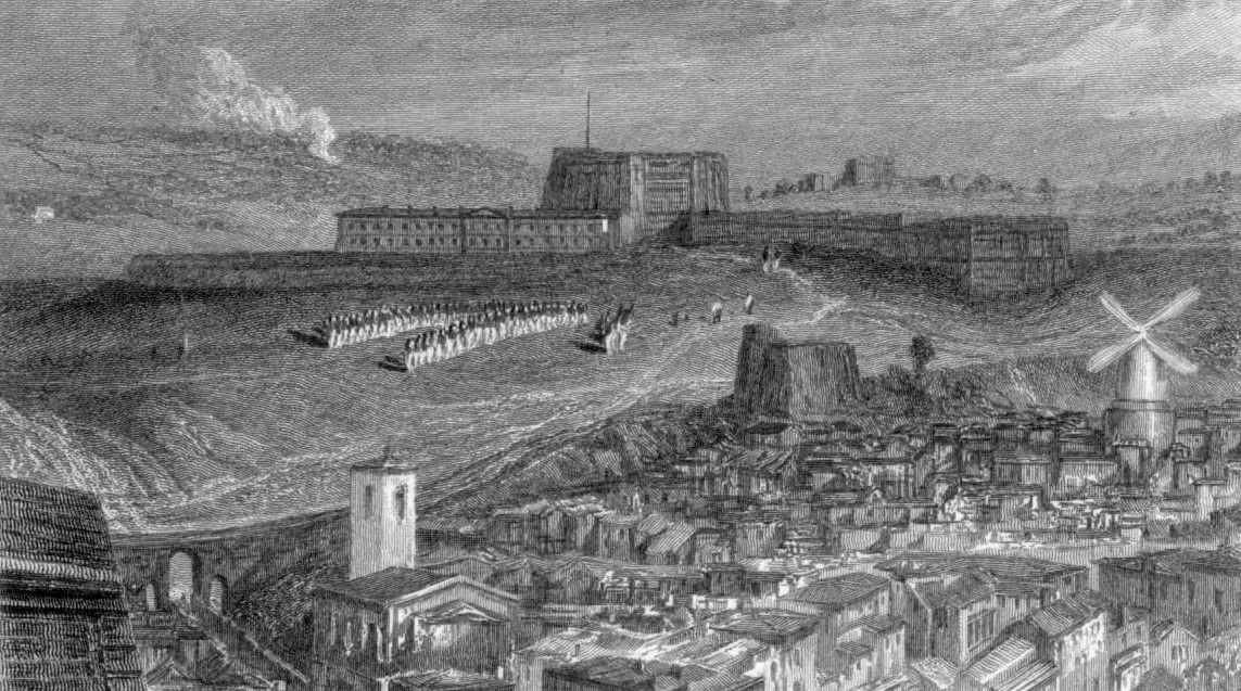 Detail from view of engraving by William Miller after J M W Turner of Fort Pitt from Fort Amherst. Published 1838.